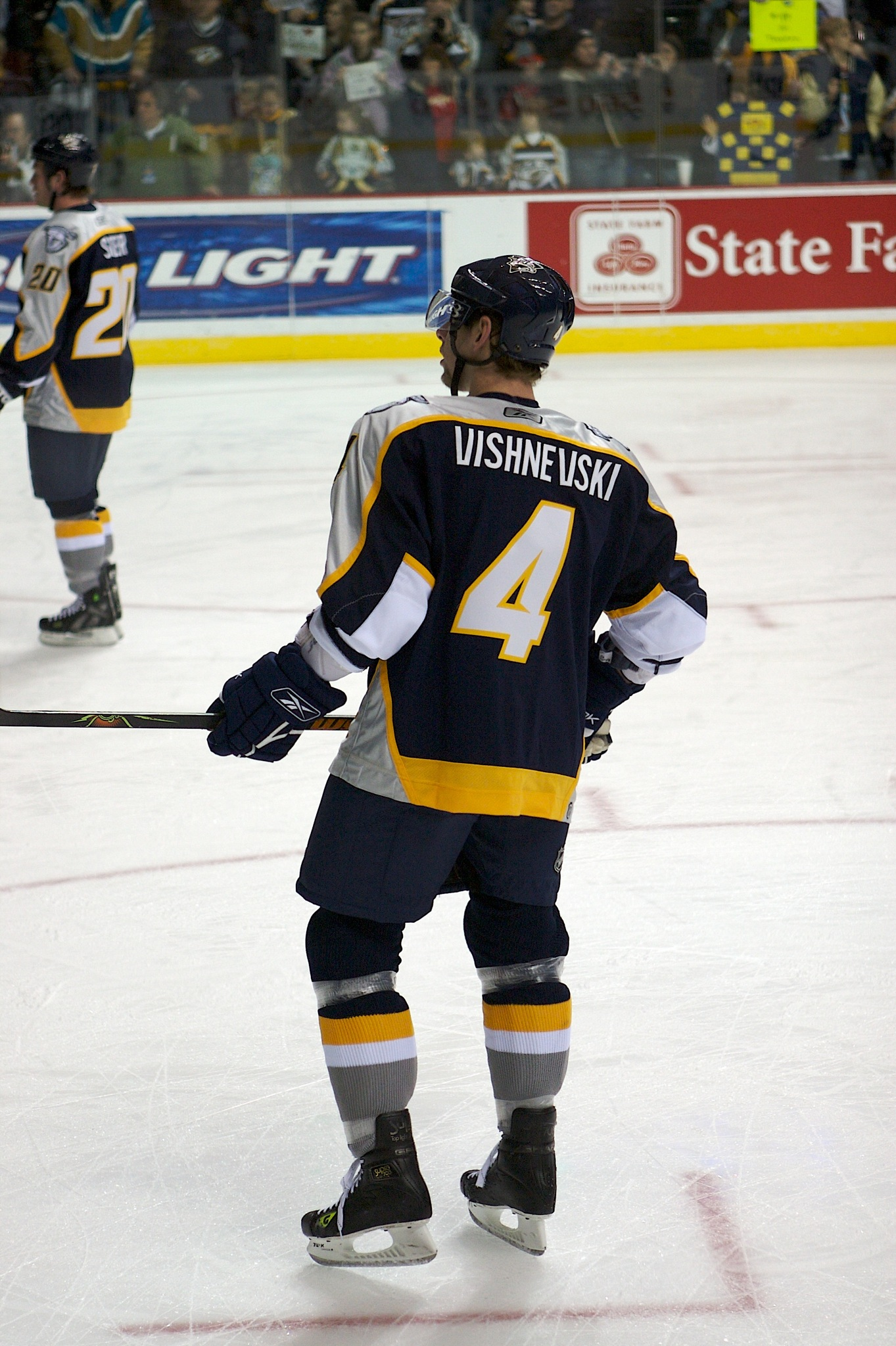 Vitaly Vishnevski, Nashville Predators